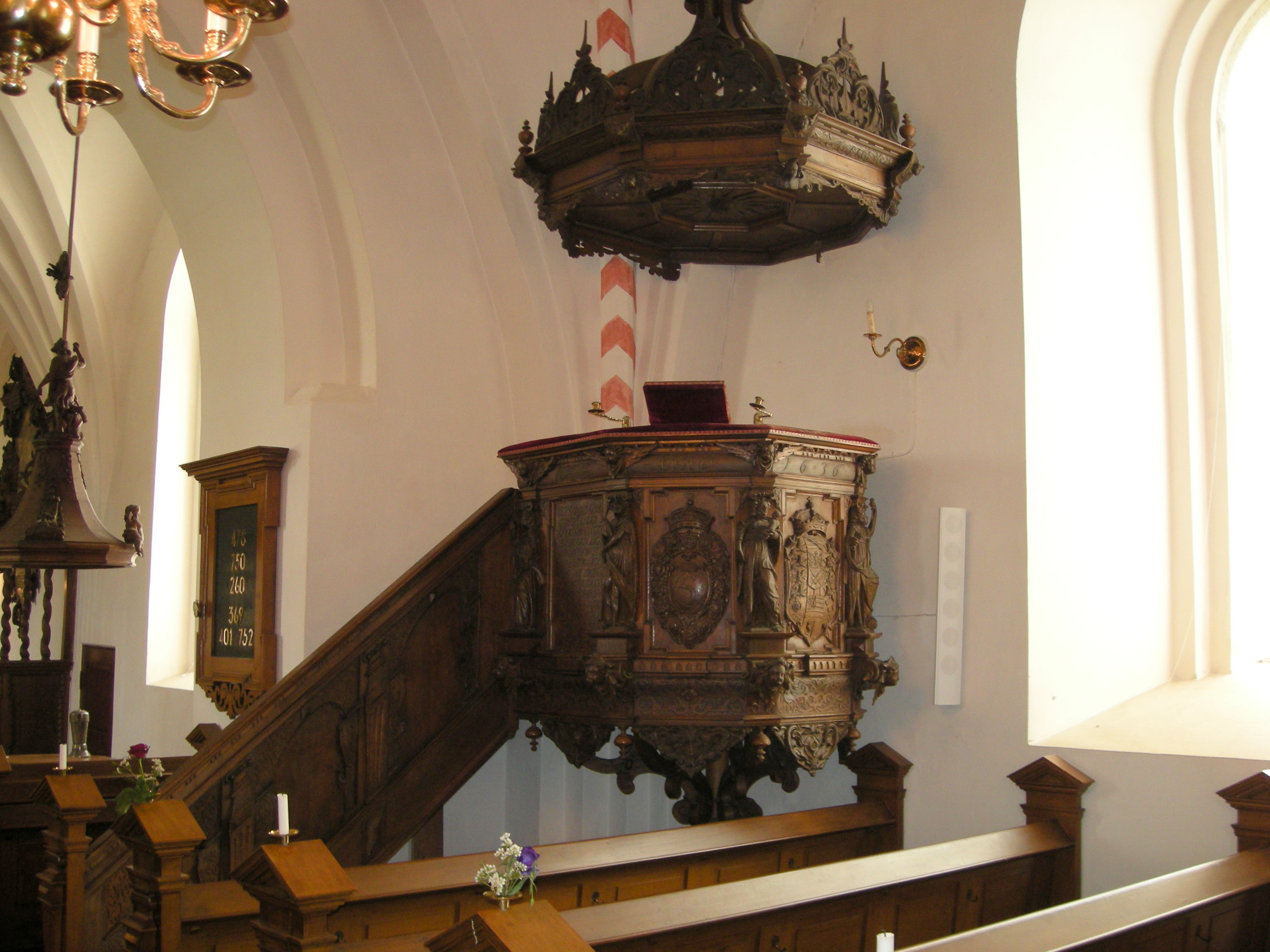 The pulpit in Halsted Church, Municipality of Lolland, Region Sealand, Denmark.